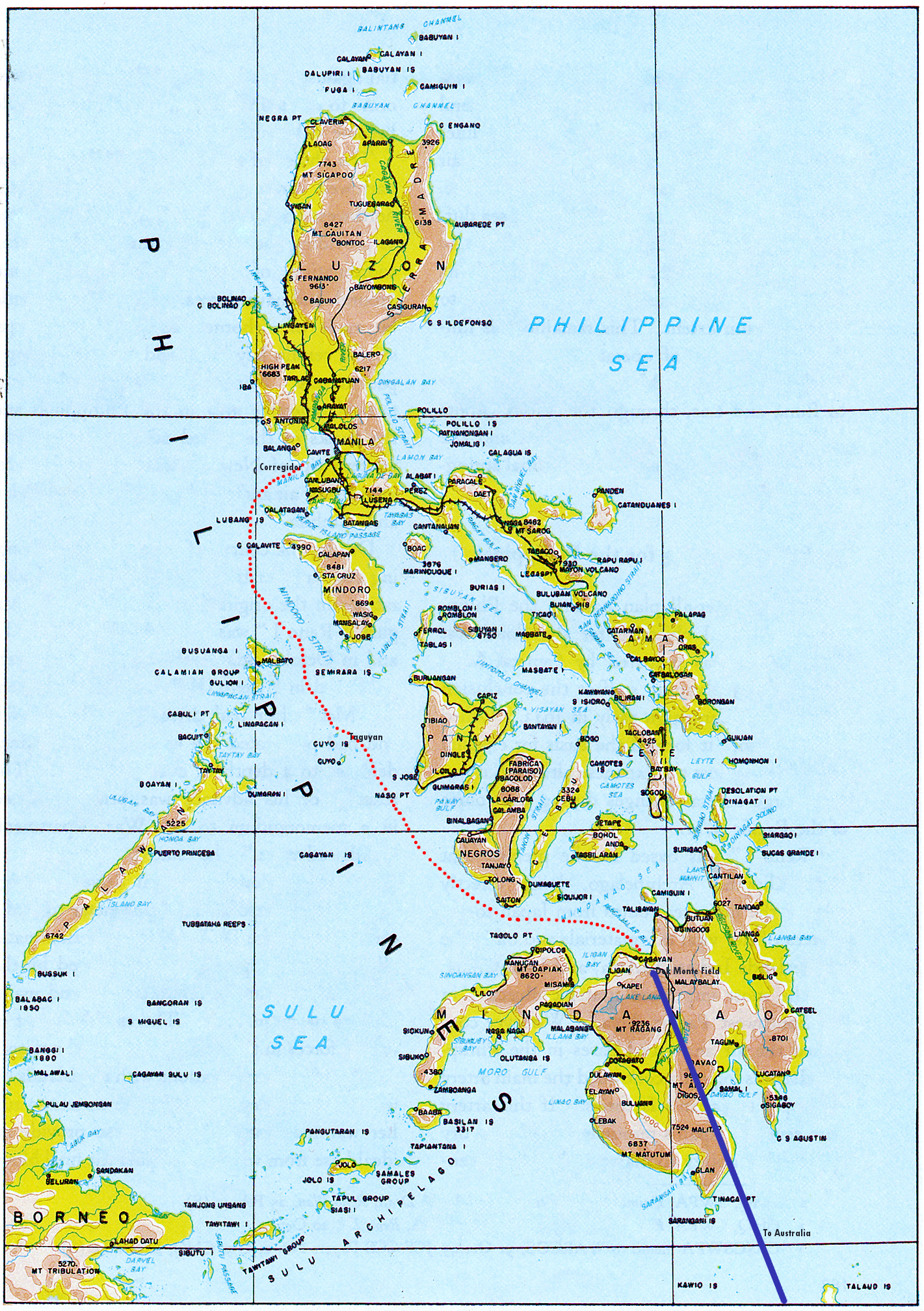 Shows the course of his escape by PT boat (red) and B-17 (blue).